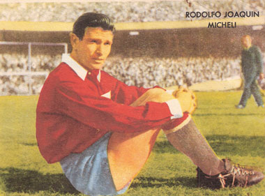 Rodolfo Micheli playing for Independiente in the 1950s